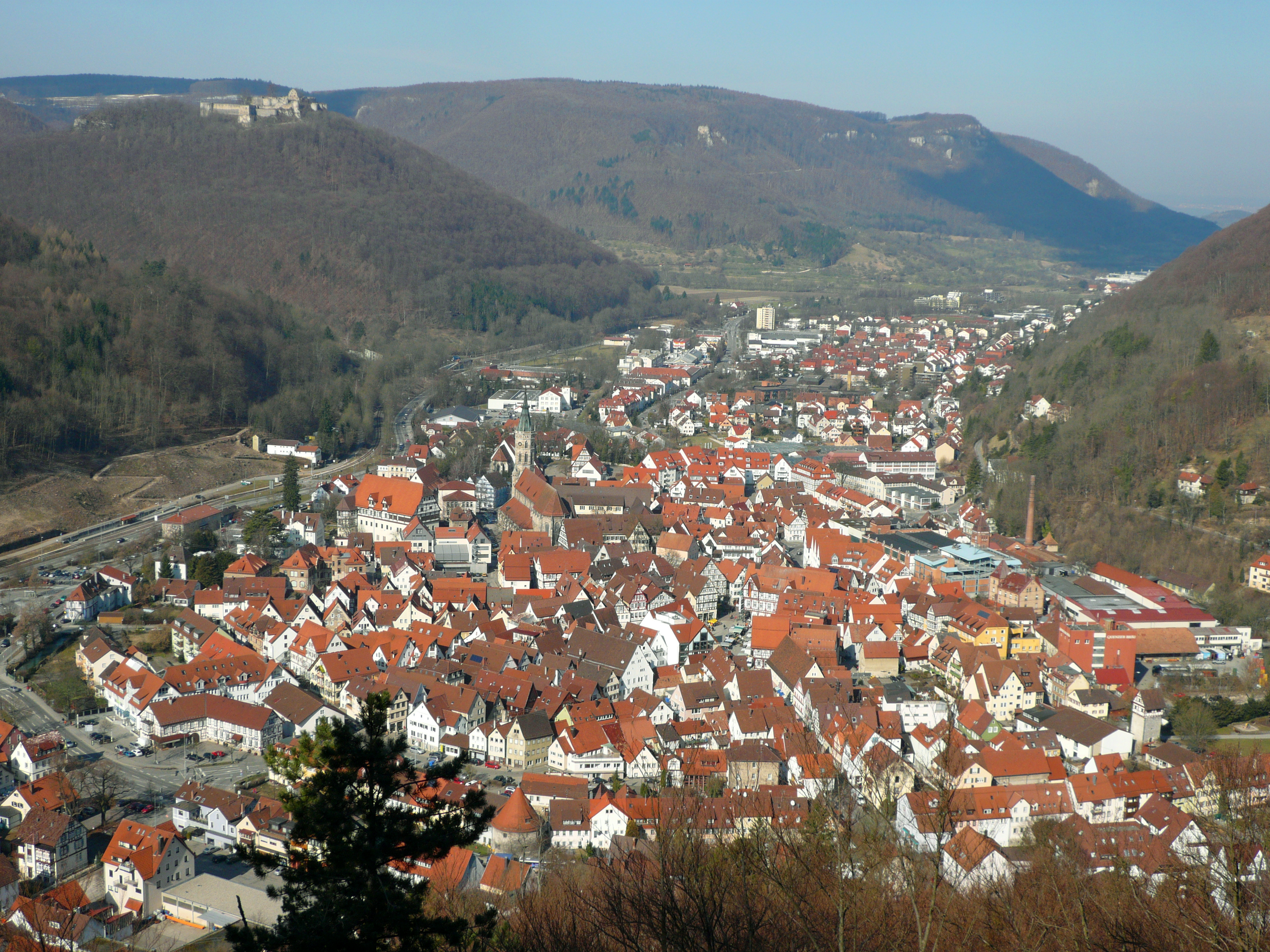 View on Bad Urach from Michelskapelle